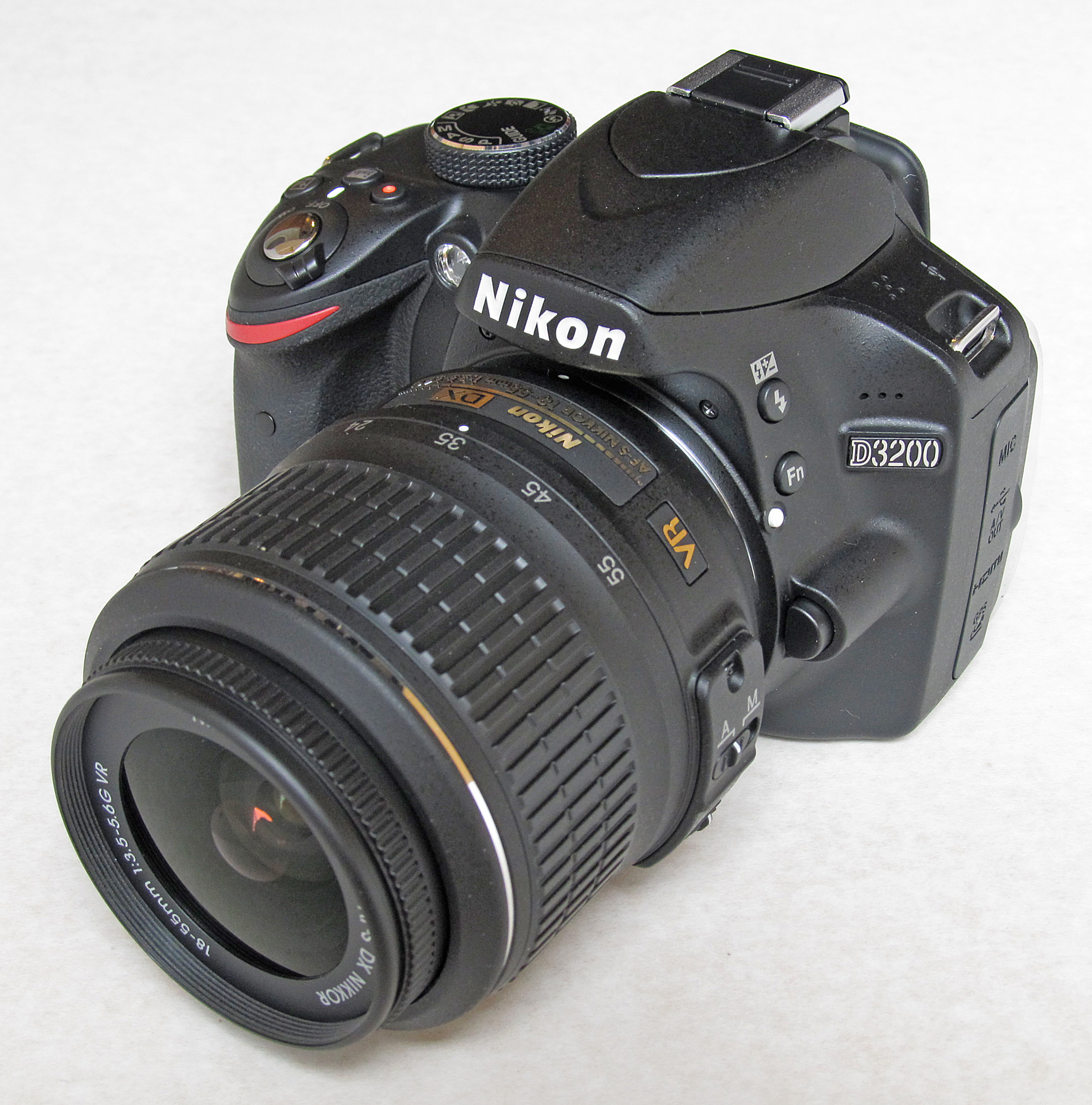 Nikon D3200 DSLR camera, with the standard Nikkor 18-55mm f/3.5-5.6G AF-S VR kit lens, just removed from packaging.